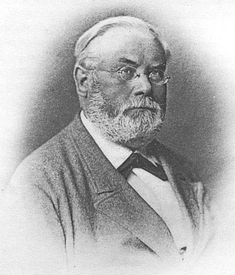 Pictured person: Jakob Malsch